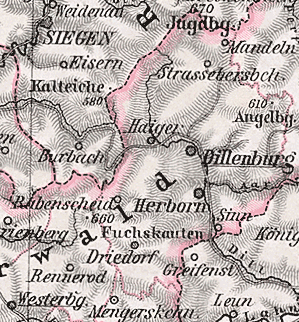 Detail from a map of Hesse.